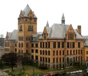 Façade and part of north side of Wayne State University's Old Main Building. Old enough to have a Michigan historical marker and predating the addition of "State" to the University's name, and despite all the fancy new green glass buildings, Old Main remains the quintessential WSU building. It was built in 1896 as the Central Detroit High School and later began housing a junior college before becoming the central building of Wayne State. Its tower, in a stylized image, graces the top of the front page of every issue of The South End, and photographs of the building are used in a vast array of marketing materials. I shot this particular photograph, on a Canon EOS 10D, from the top floor of Parking Structure 6, on rainy 13 January 2005. I release this file under the terms of GDFL. Del arte 21:07, 13 Jan 2005 (UTC)